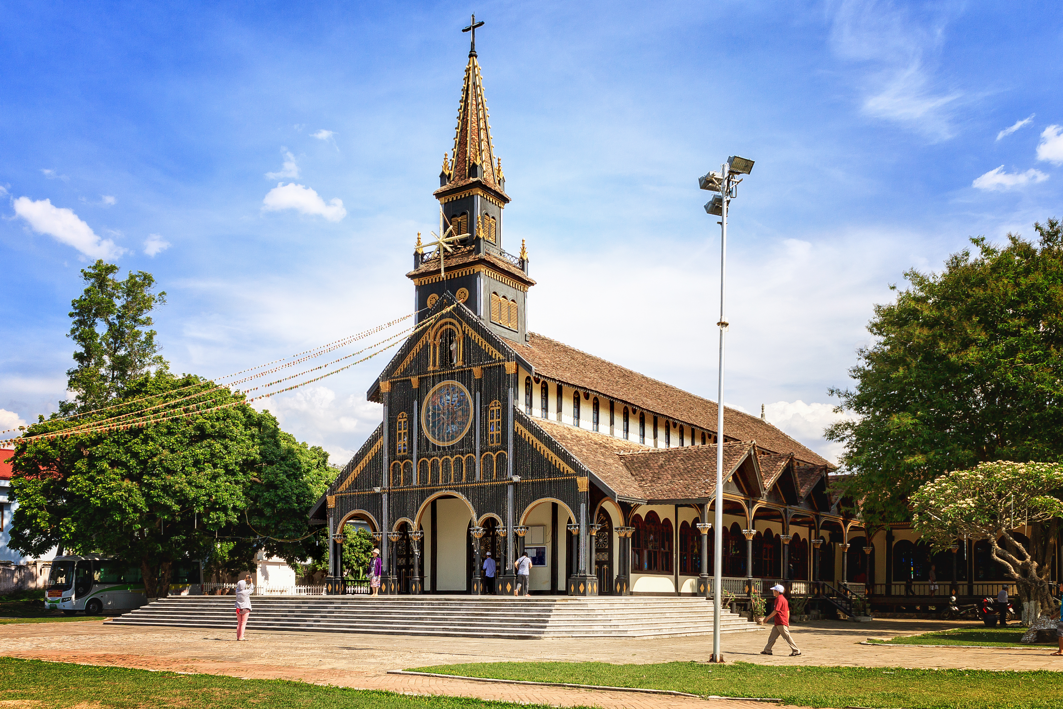 A wooden church of Nguyen hue, Kon Tum, Vietnam, which was built in 1918.